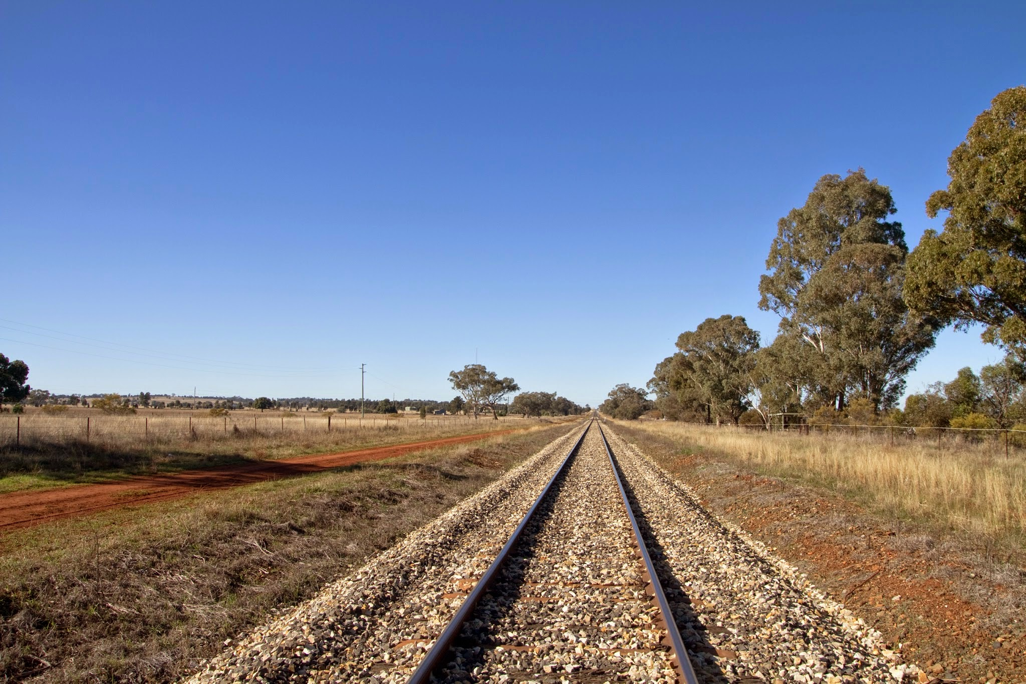 Railway tracks near Dubbo